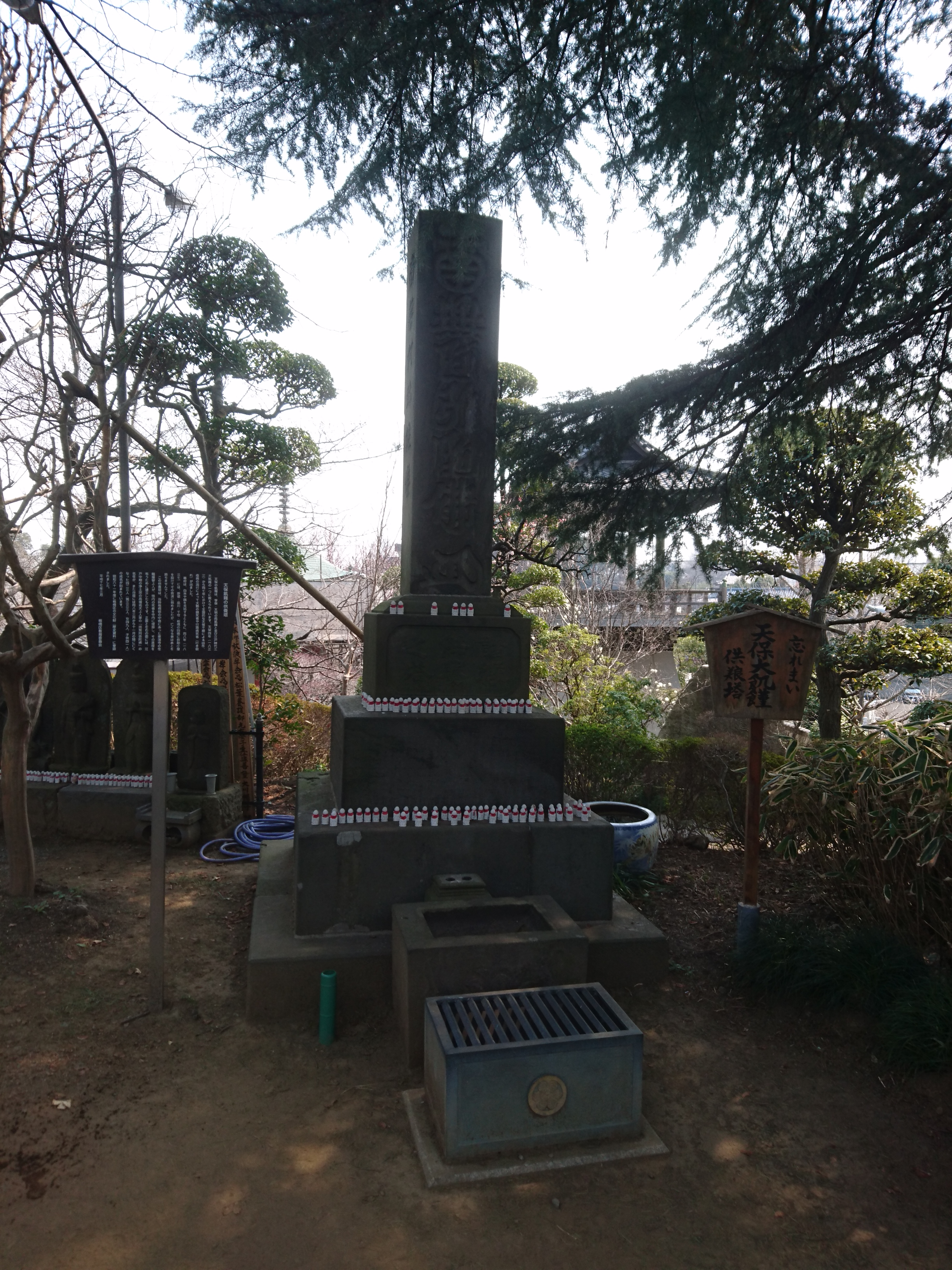 Monument of Tenpō famine in Jyorenji, Itabashi.